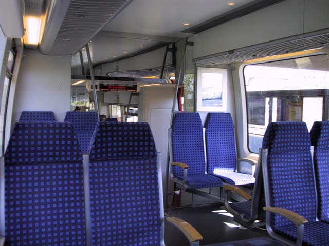 The interior of a Talent diesel multiple unit used by the Ottawa O-Train pilot project.